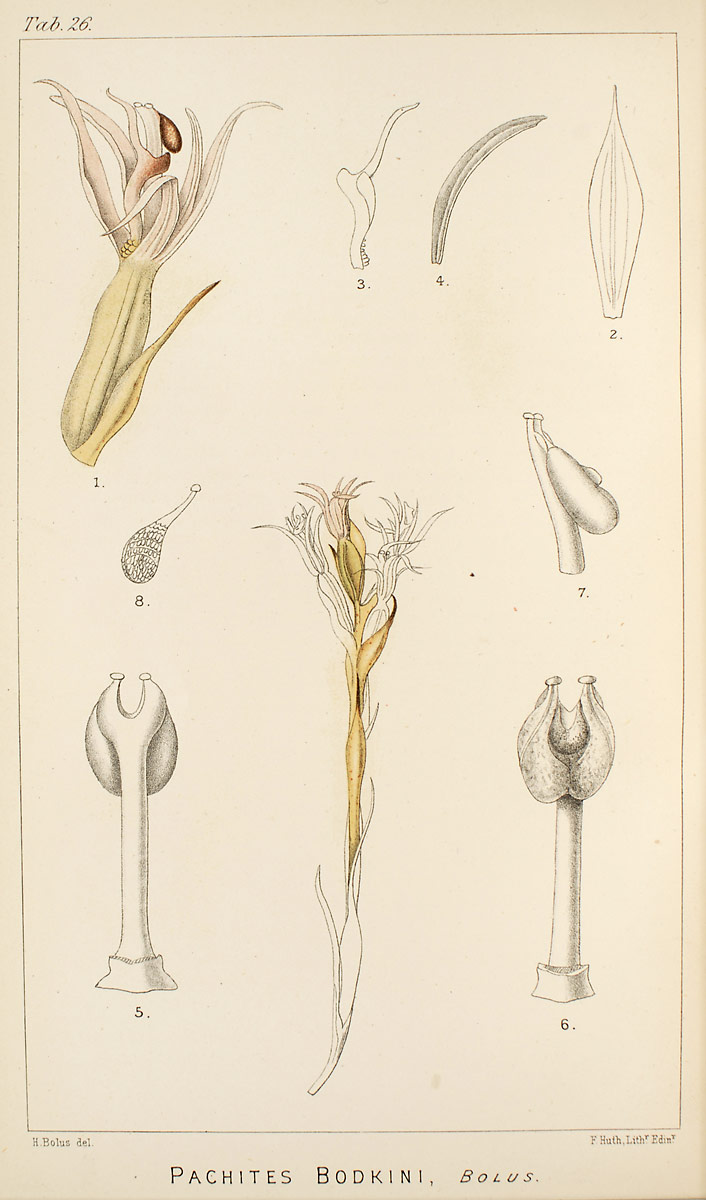 Illustration of Pachites bodkinii from Harry Bolus Icones Orchidearum Austro-Africanarum